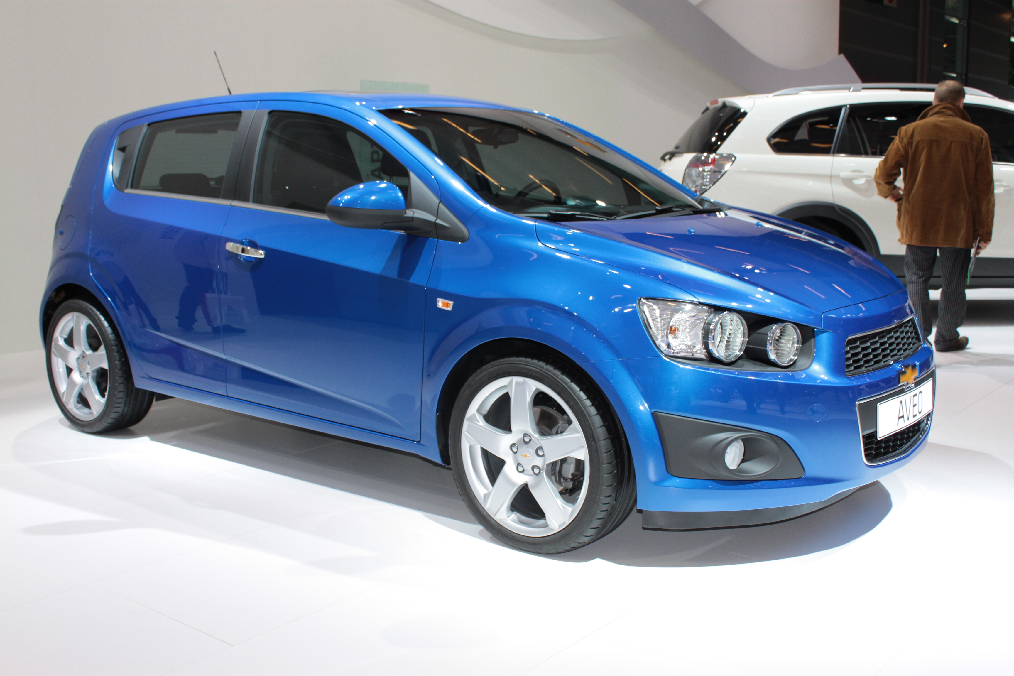 Second-generation Chevrolet Aveo at the 2010 Paris Motor Show